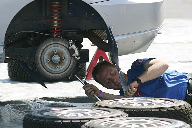 An auto mechanic works on a rally car at the 2003 Ojibwe Rally in Bemidji, MN.